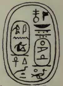 Drawing of a scarab seal of the 13th dynasty pharaoh Merhotepre Ini by Flinders Petrie, now in the Petrie Museum.